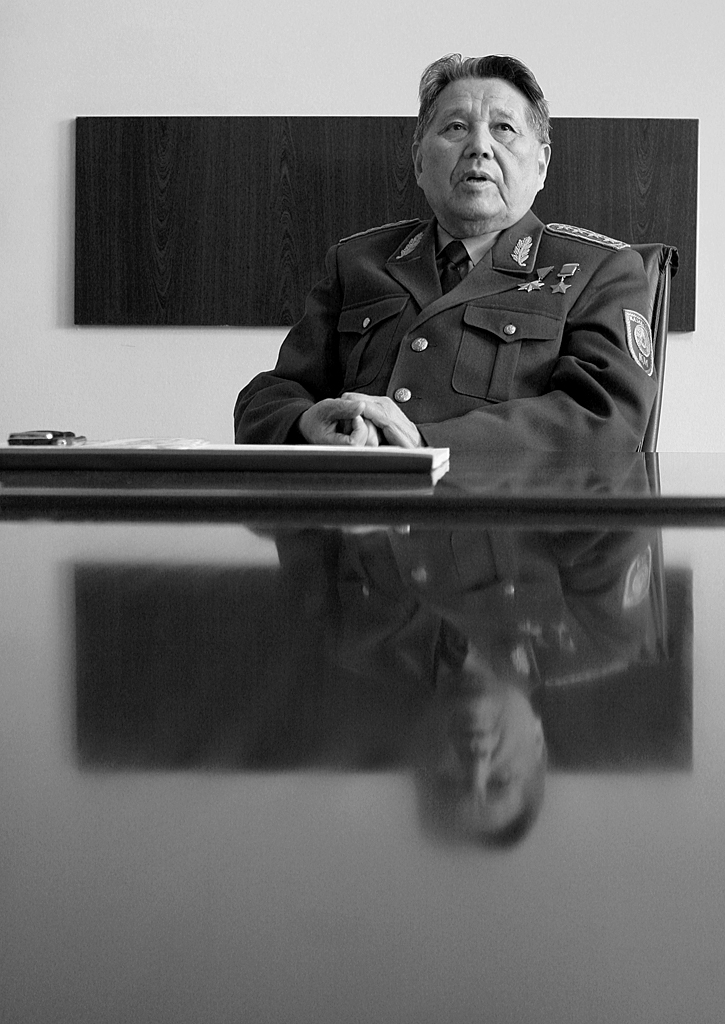 General, the First Minister of Defence of independent Republic of Kazakhstan (1992—1995), the Hero of The Soviet Union, National Hero of Kazakhstan